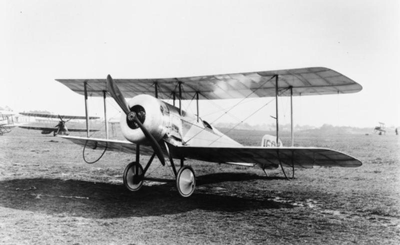 Aviation in Britain Before the First World War A Bristol Scout with a 80 horse power Gnome rotary engine, on the ground. In the background are stood several unidentified aircraft.